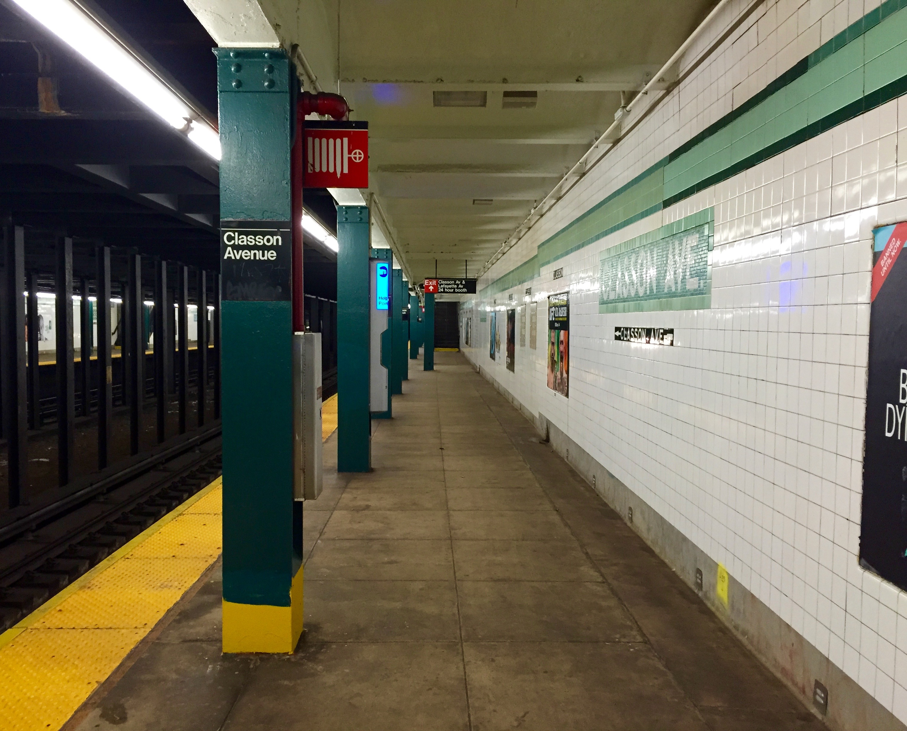 Queens Bound Platform at Classon Avenue on the G.